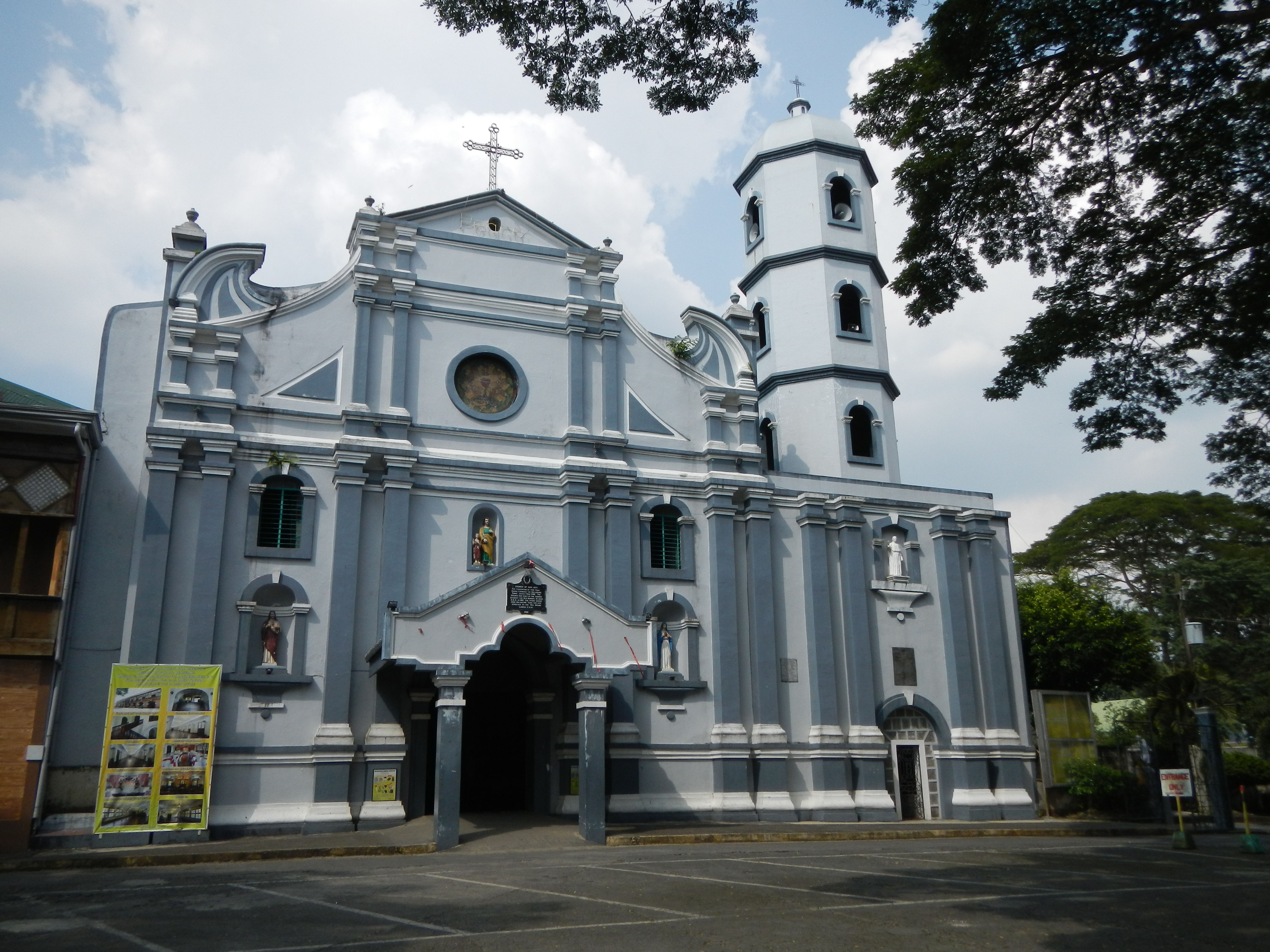 Upload Wizard photos of - Archdiocesan Shrine of Saint Joseph the Patriarch of San Jose, Batangas - St. Joseph the Patriarch Parish Church - Roman Catholic Archdiocese of Lipa[1] - Vicariate IV: Vicariate of Saint Joseph [2] [3] [4] [5] [6] [7]; it was issued a Decree as Jubilee Church on September 17, 2007 - San Jose, Batangas[8] [9] ZIP Code: 4227 area: 53.29 km², established on April 26, 1765, a first class municipality in the province of Batangas, Philippines, latest census, a population of 61,307 people in 10,123 households politically subdivided into 33 barangays).[10].